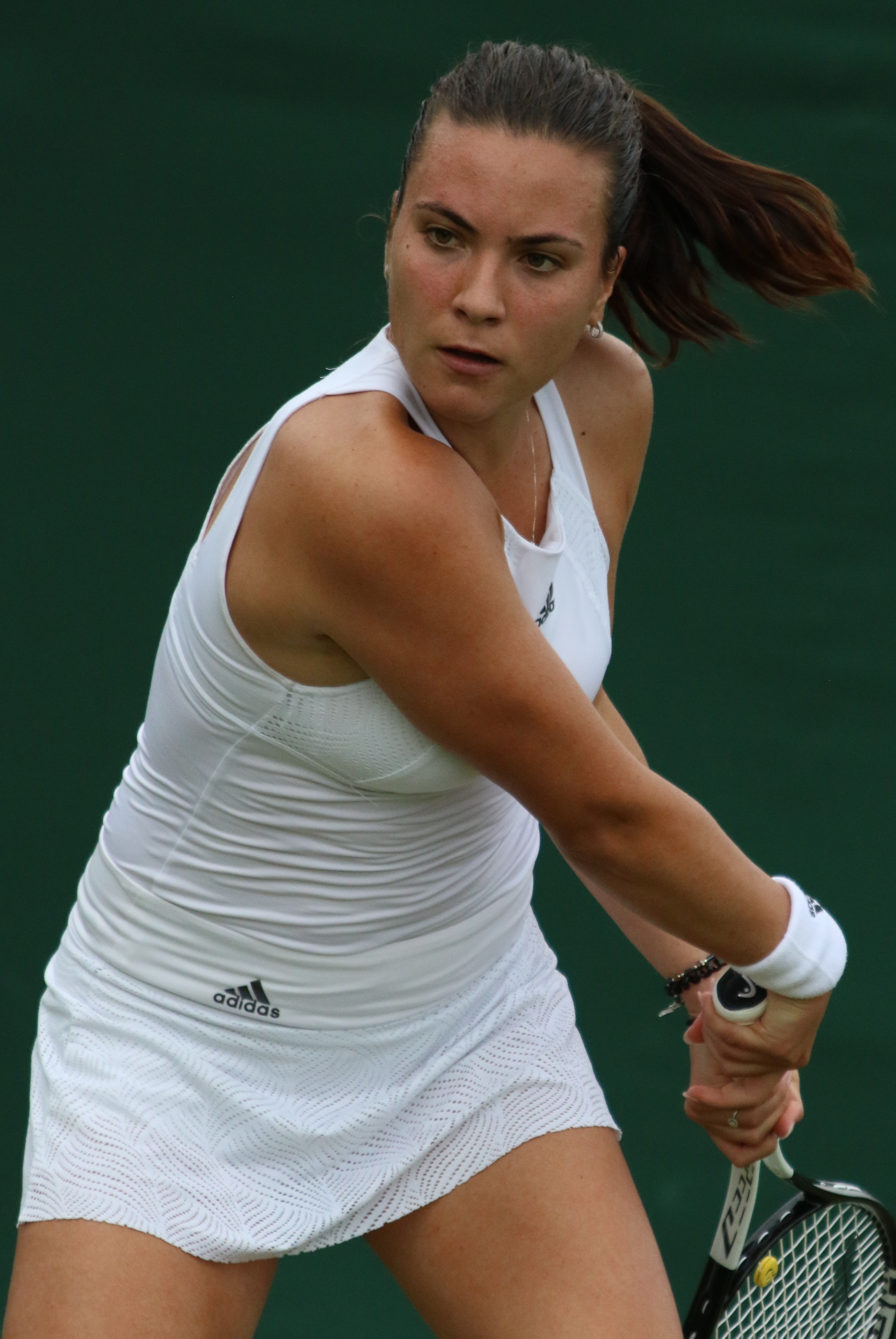 2019 Wimbledon Qualifying Tournament.